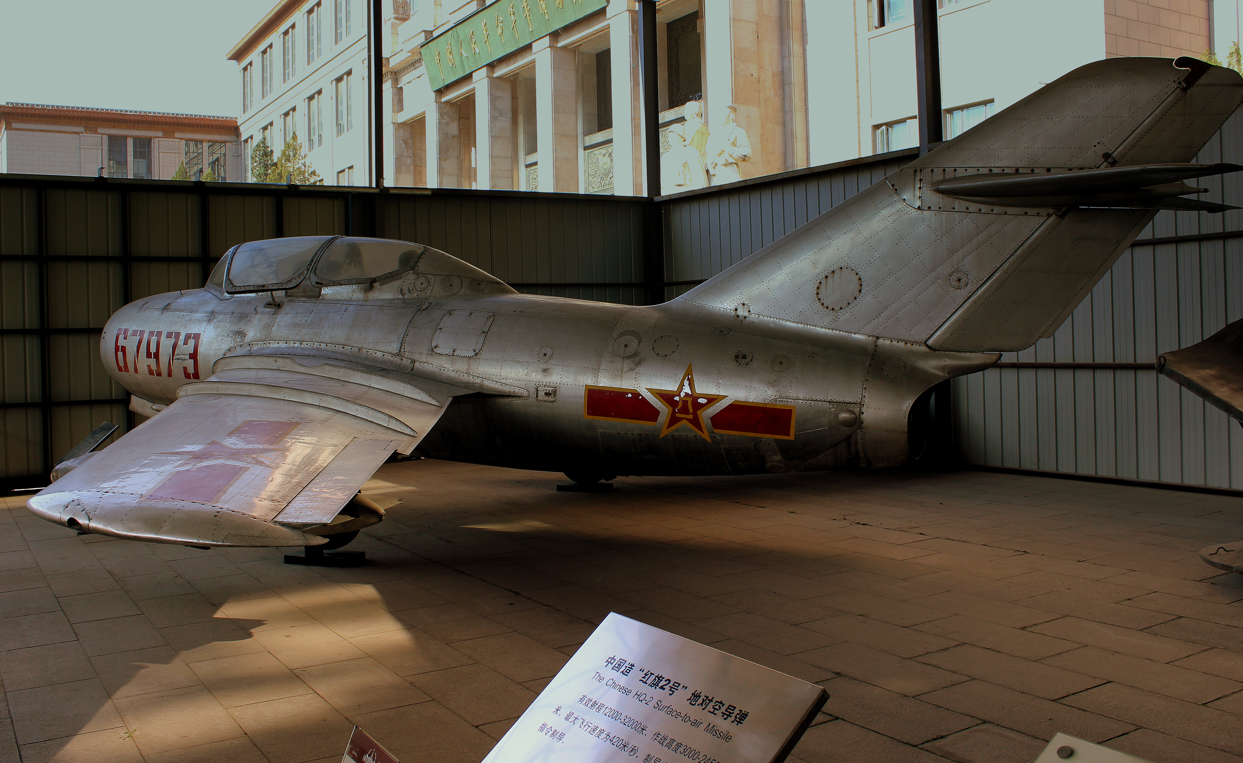 BEIJING MILITARY MUSEUM CHINA OCT 2012